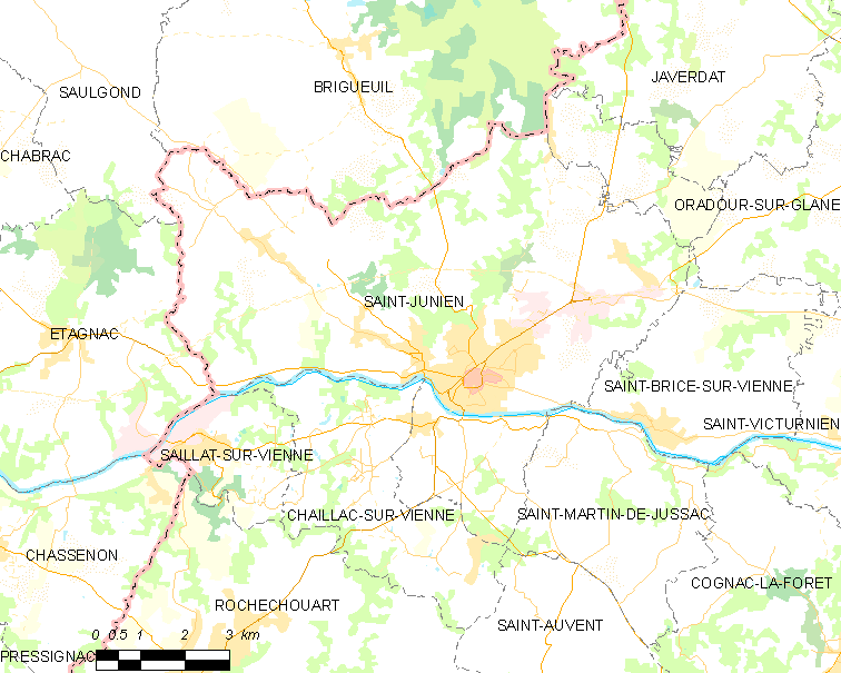 Map of French municipality Saint-Junien